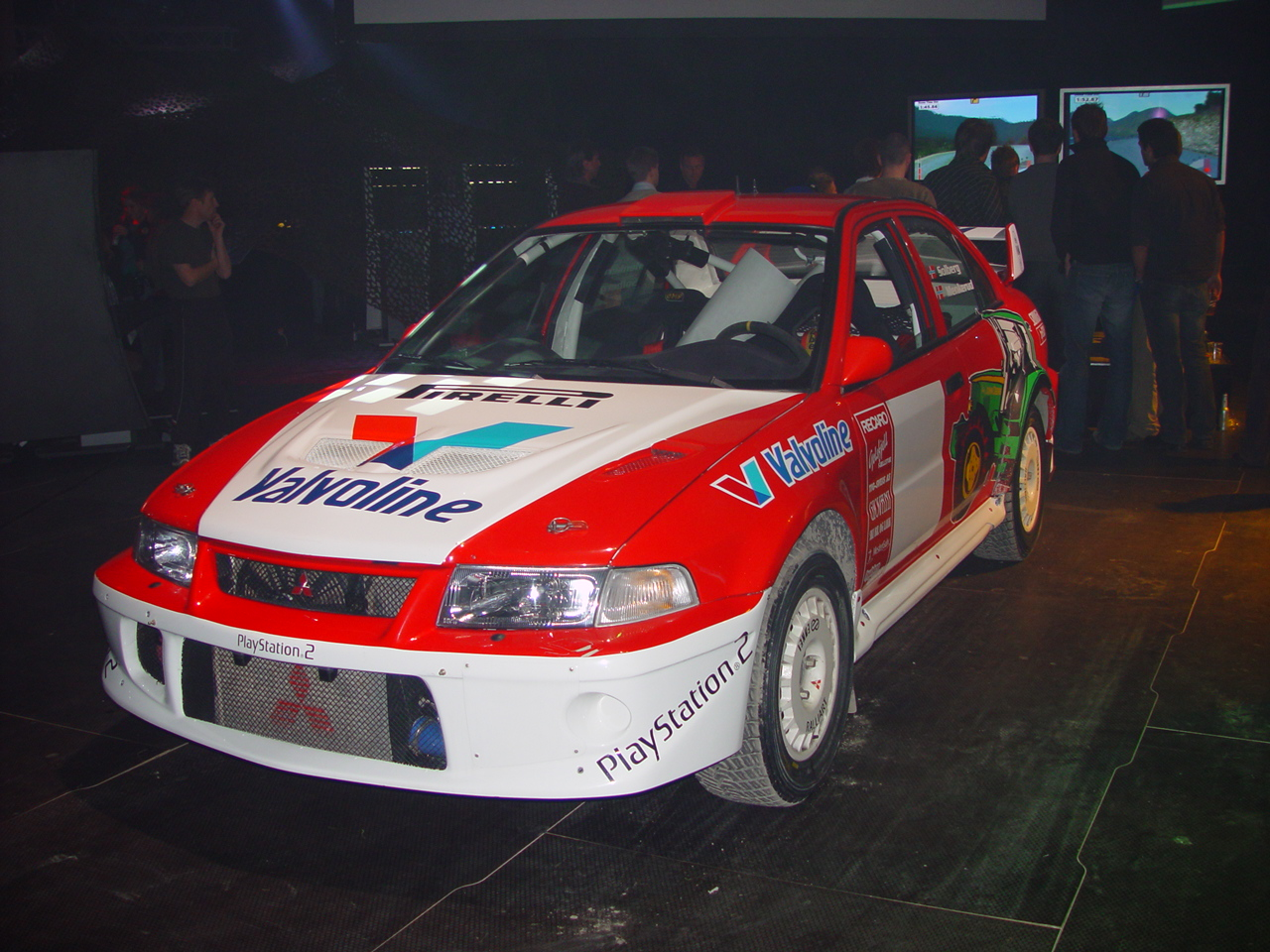 Henning Solberg's A8-class group A Mitsubishi Lancer Evo 6, which he drove during 2003 WRC season.